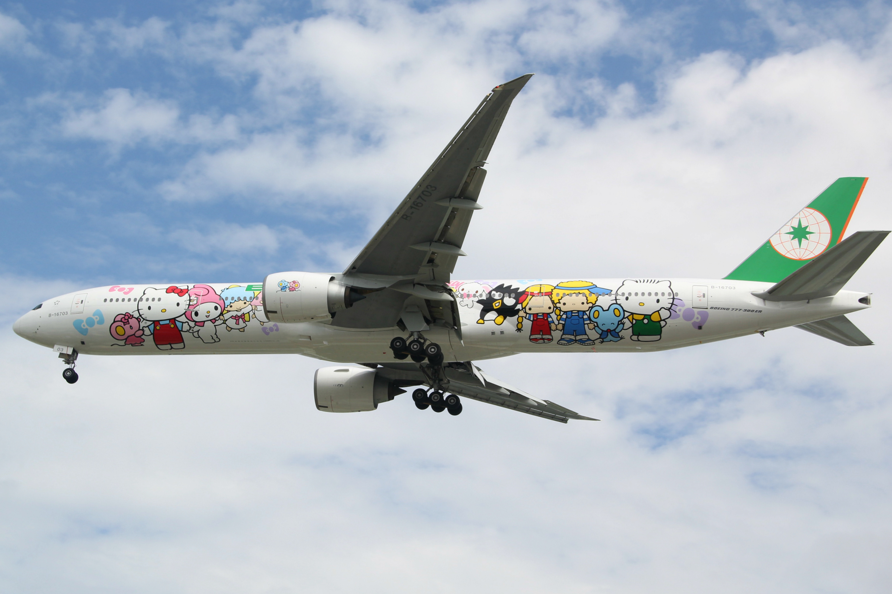 B-16703 (Boeing 777-35E(ER)) from EVA Airways Hello Kitty Special Scheme